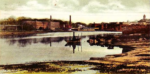 Squamscott River in 1908, Exeter, NH; from an old postcard.